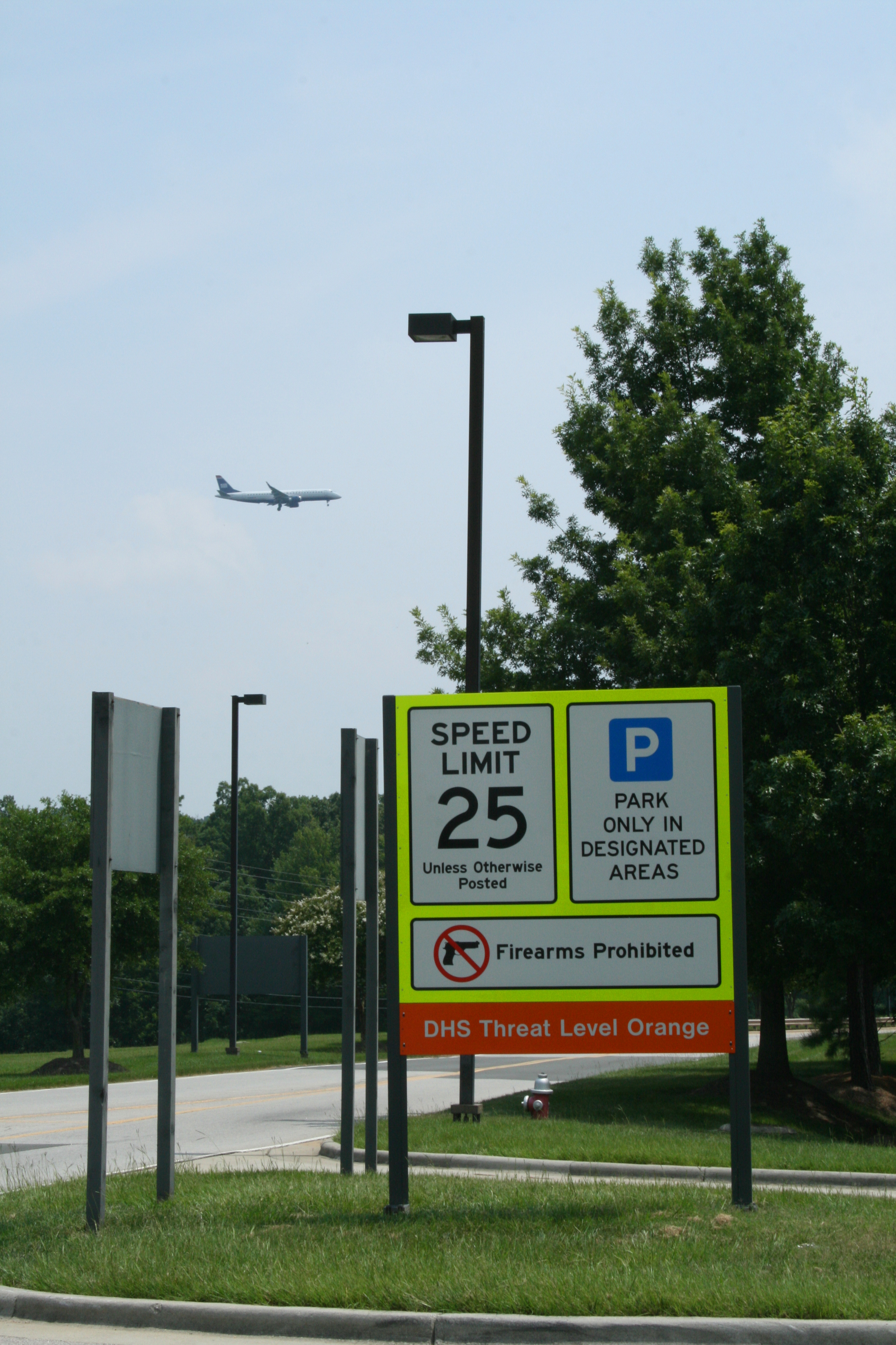 Sign at the Raleigh-Durham International Airport.